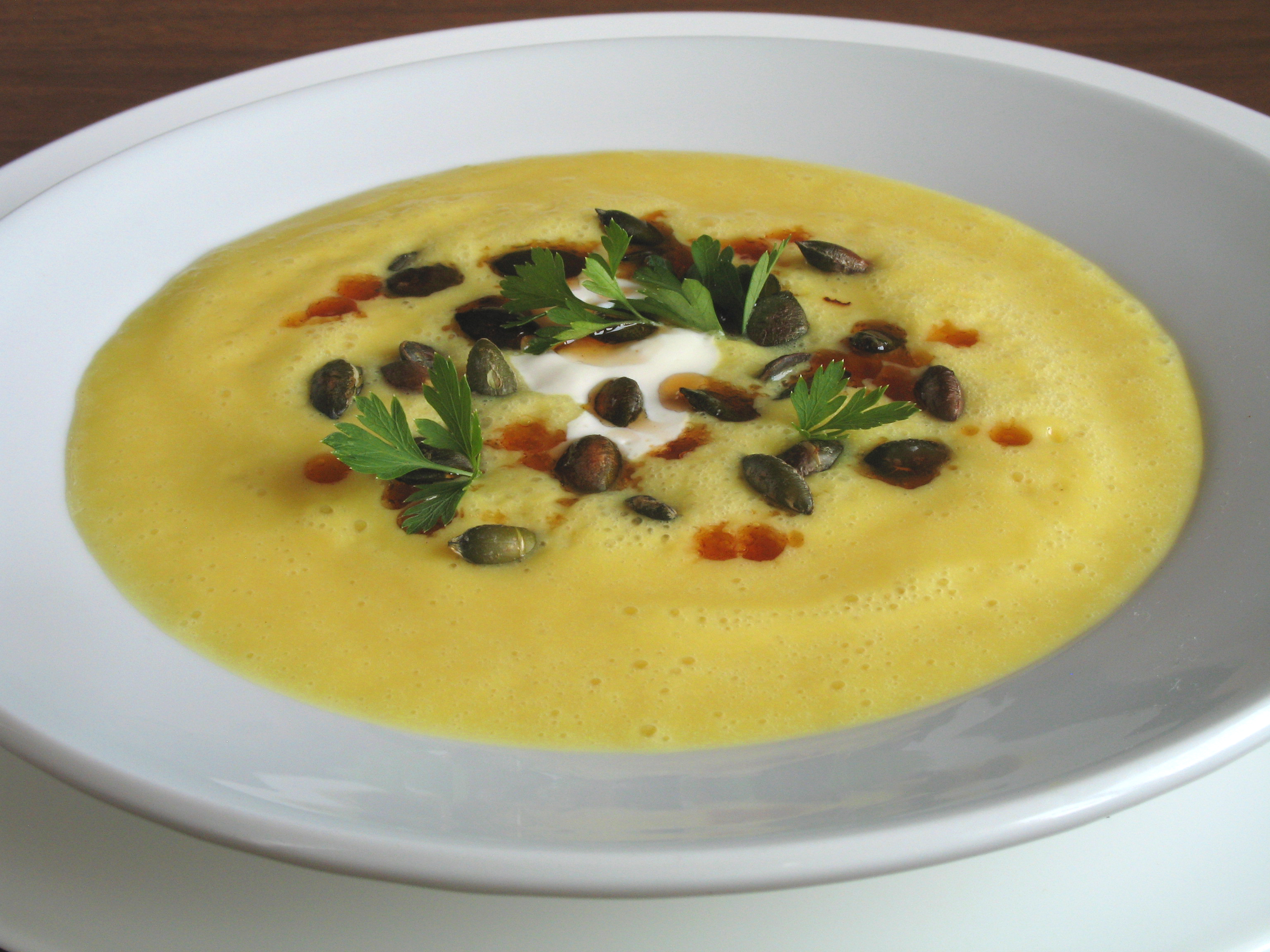 Pumpkin Cream Soup